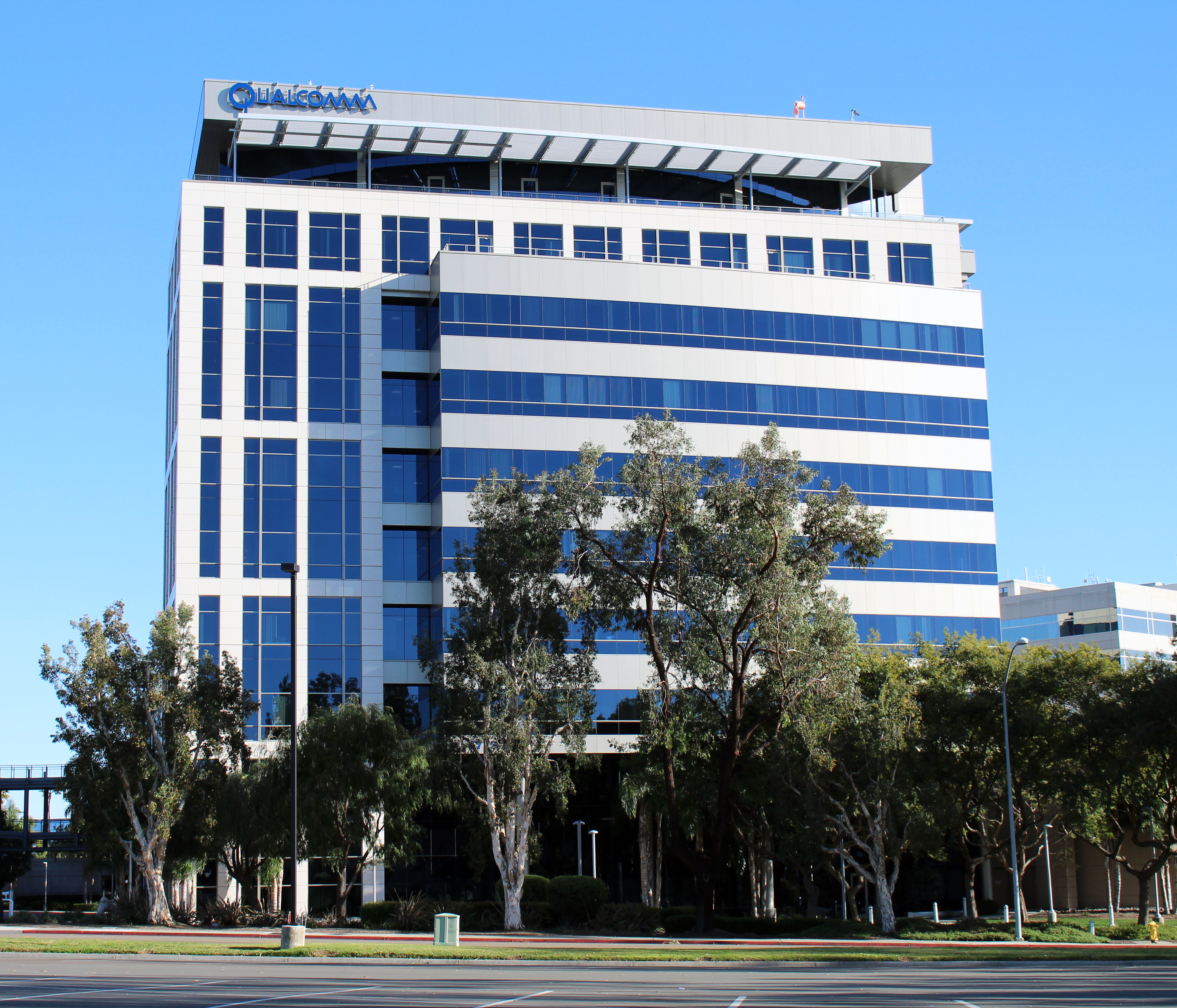 The headquarters of Qualcomm in the La Jolla area of San Diego, California. Photographed on December 26, 2015 by user Coolcaesar.